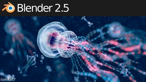 Splash screen of Blender 2.59. The splash screen was made by Tomket7.